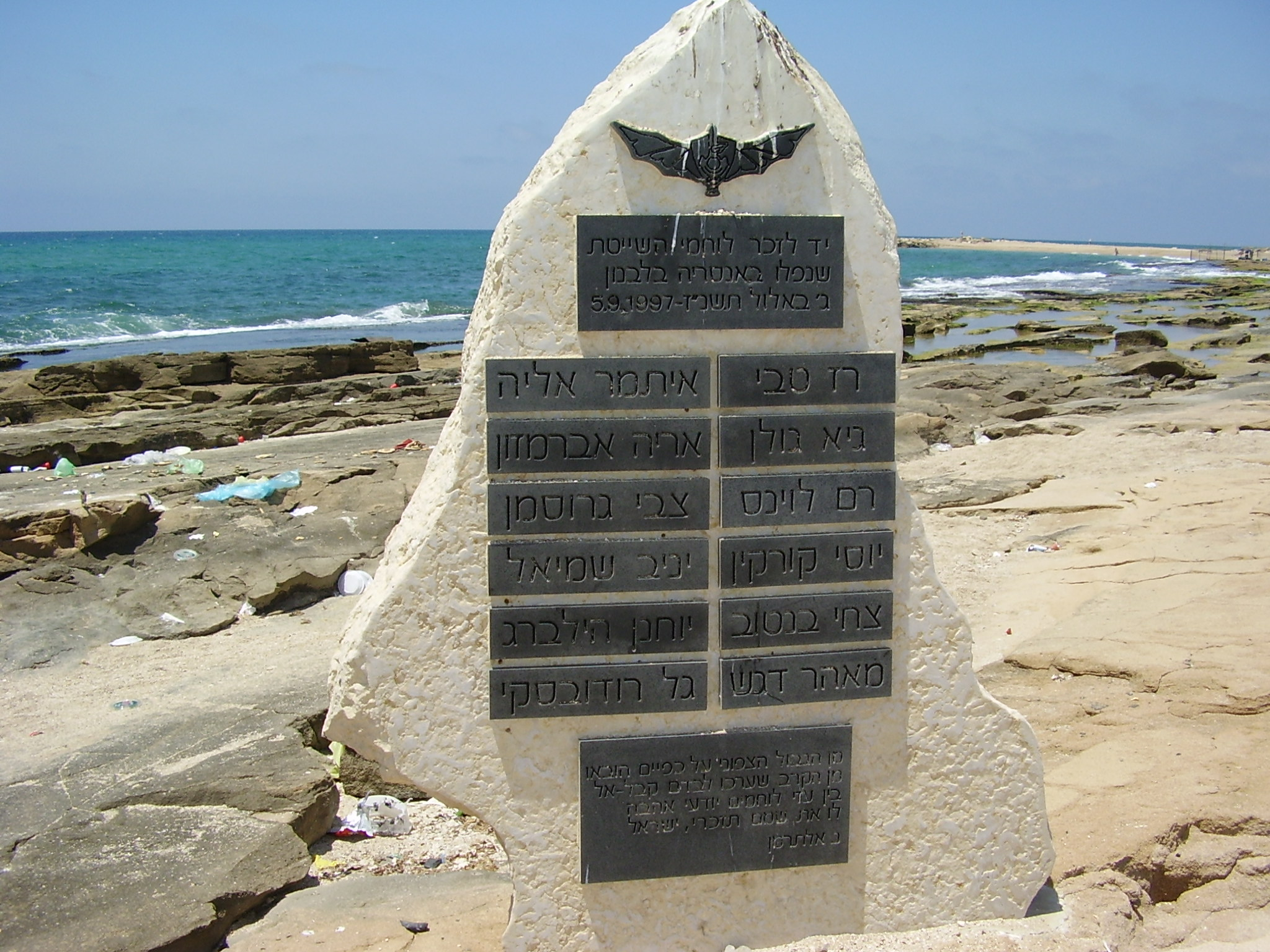 shatetet war memorial in shavei-zion